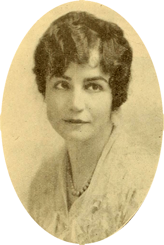 Advertisement in The Moving Picture World